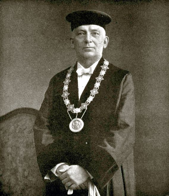 W.H.L. Janssen van Raay, 1927